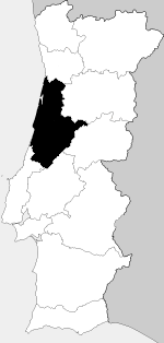 Former province of Beira Litoral, Portugal Created by User:Brian Boru in September 2005, based on a map created by Jorge Candeias.